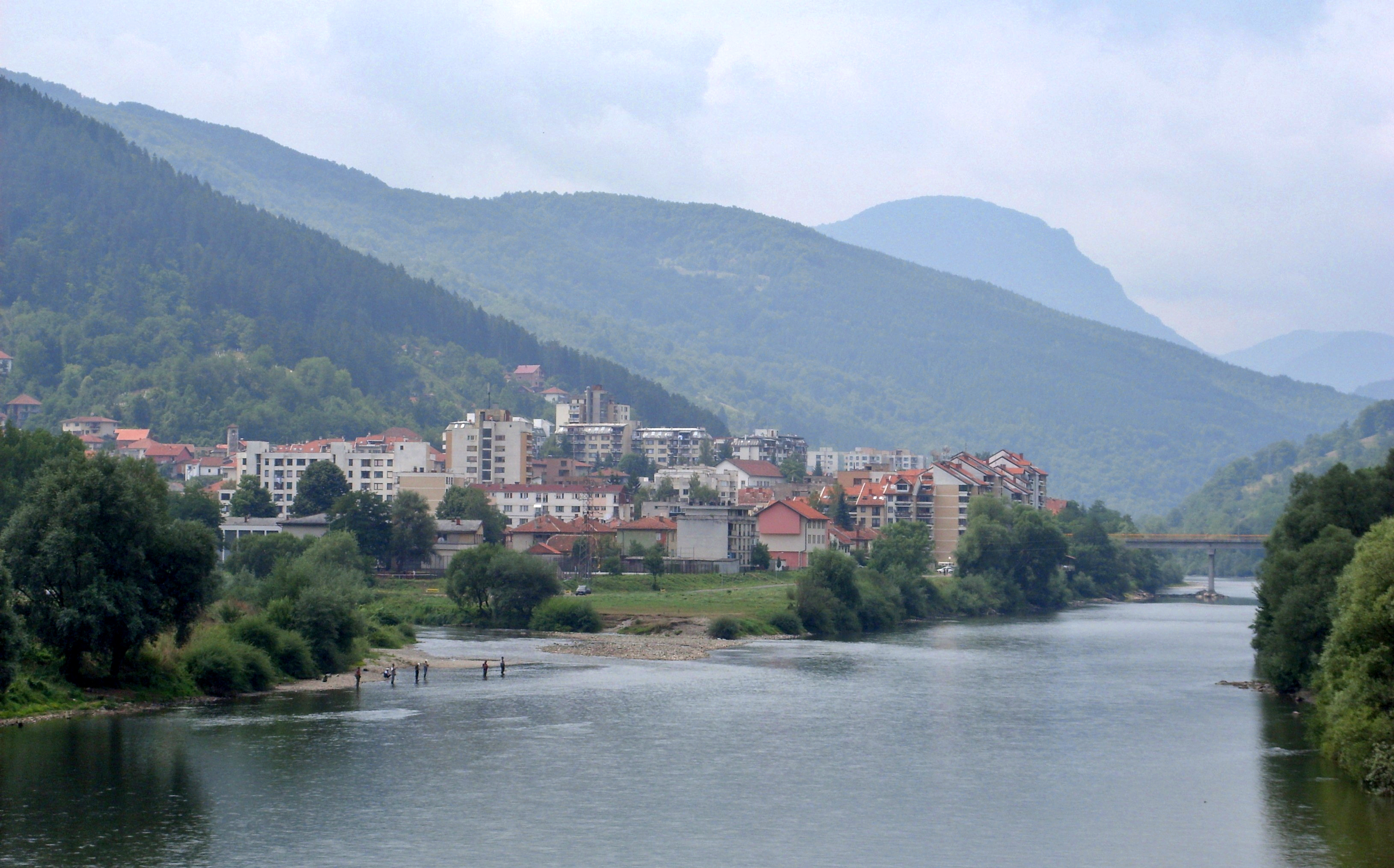 View on Foča (Bosnia and Herzegovina). Mouth of River Čeotina into Drina River.